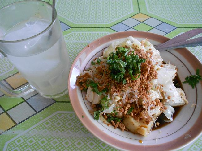 Kupat tahu